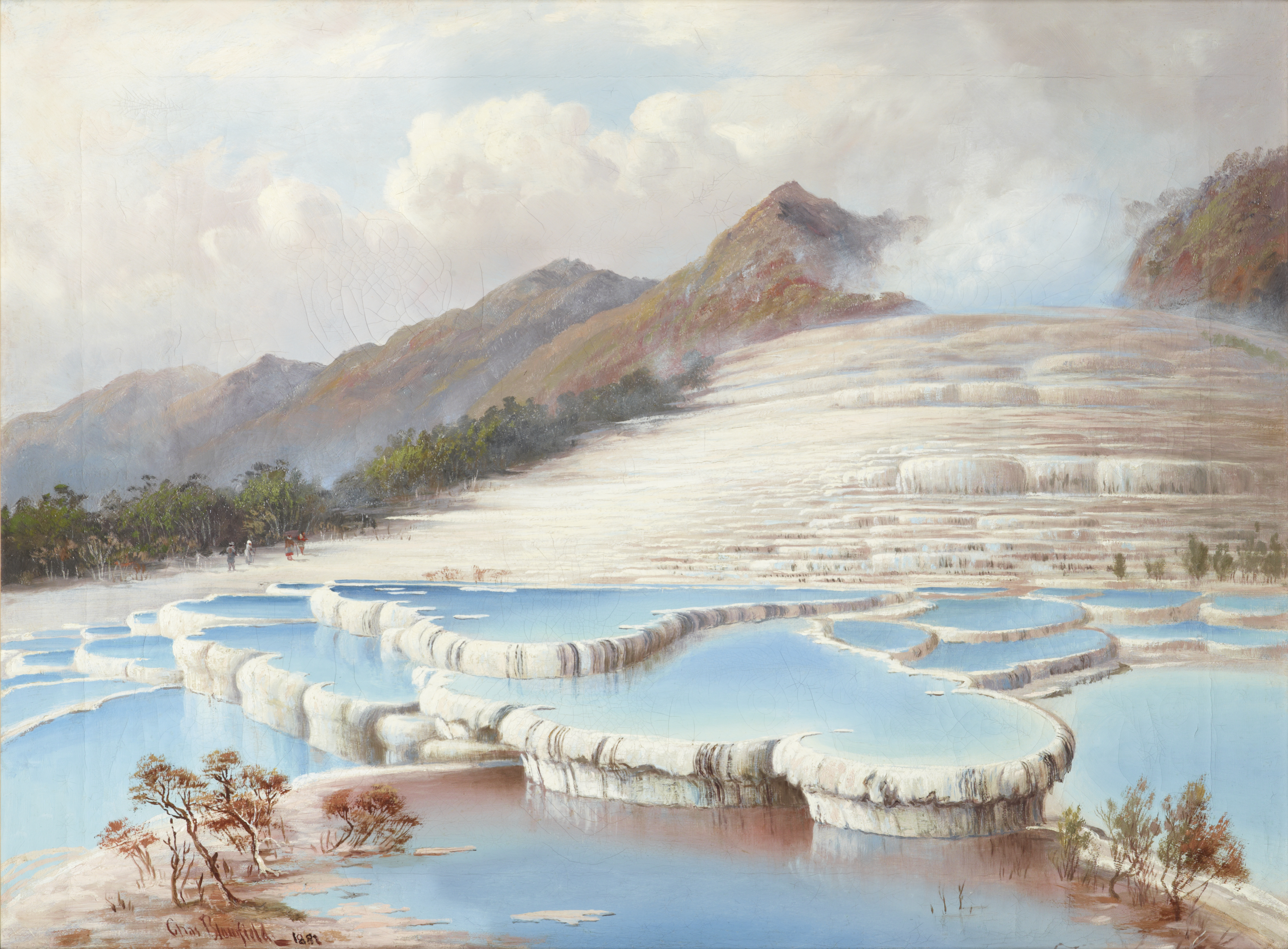 White Terraces, near Rotorua, New Zealand. These were destroyed by a volcanic eruption in 1884